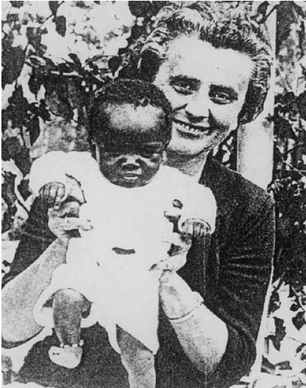 Johanna Decker: German Catholic mission doctor